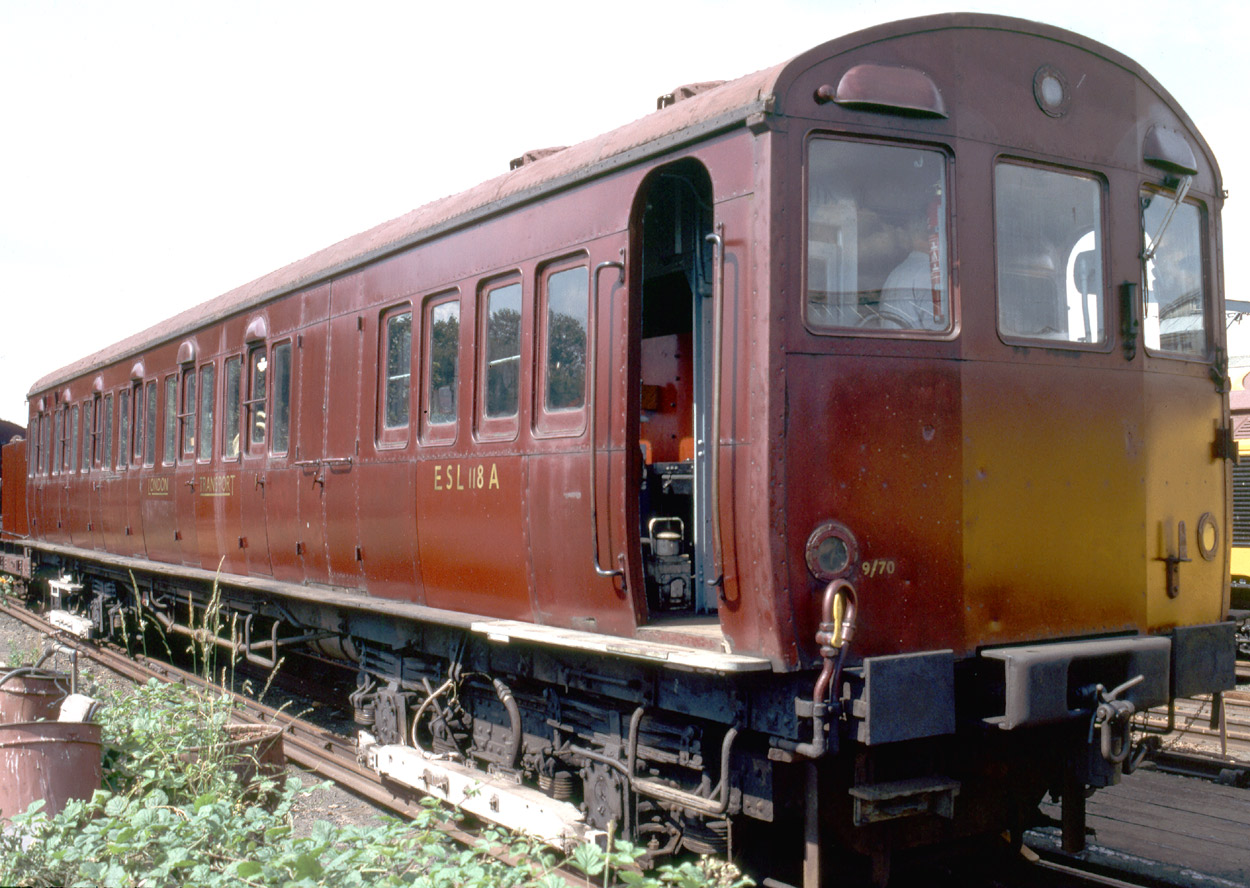 T stock at Acton Works open day 1983 Photographed by SP Smiler